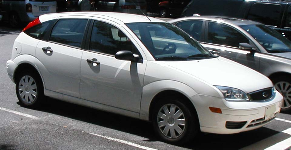 2005-2007 Ford Focus ZX5 photographed in USA.